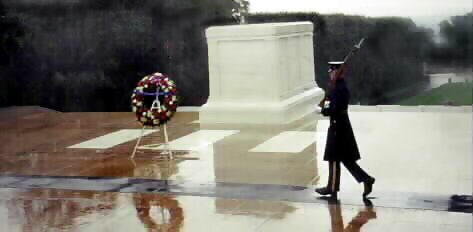 Guard at the Tomb of the Unknowns, Arlington National Cemetery. Department of Defense photo